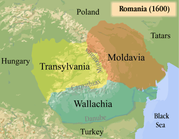 Danubian Principalities. 1600